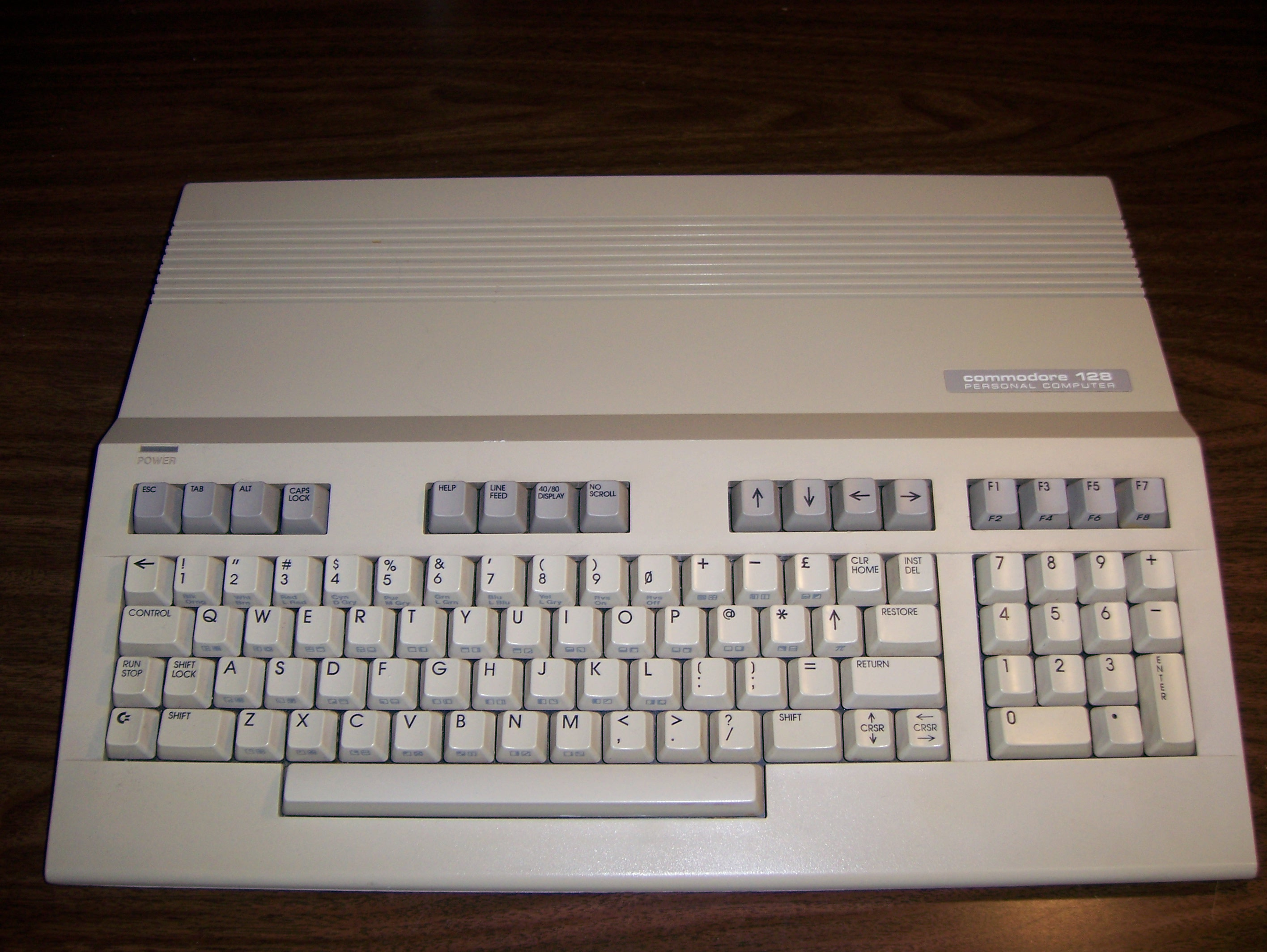 HI-RES photo of a Commodore 128